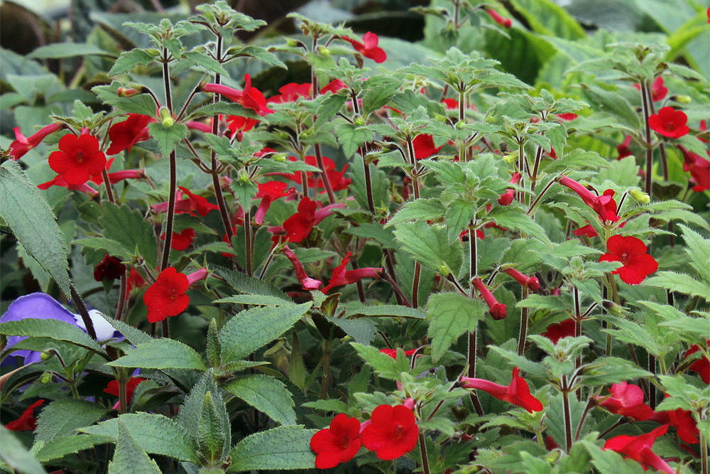 Achimenes erecta, a species of rhizomatous, herbaceous, tender perennial plant from Jamaica